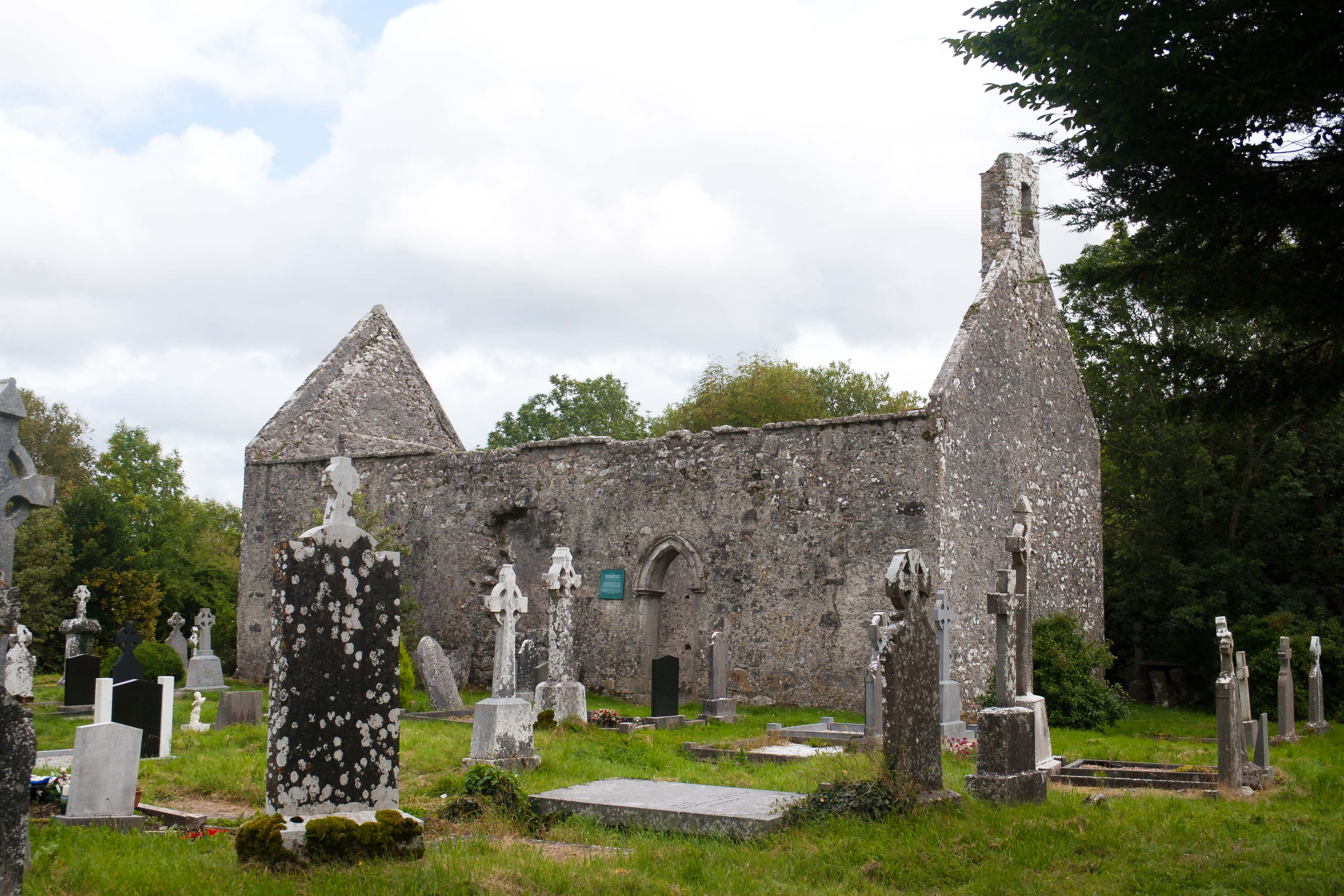 North-west view of the former cathedral.